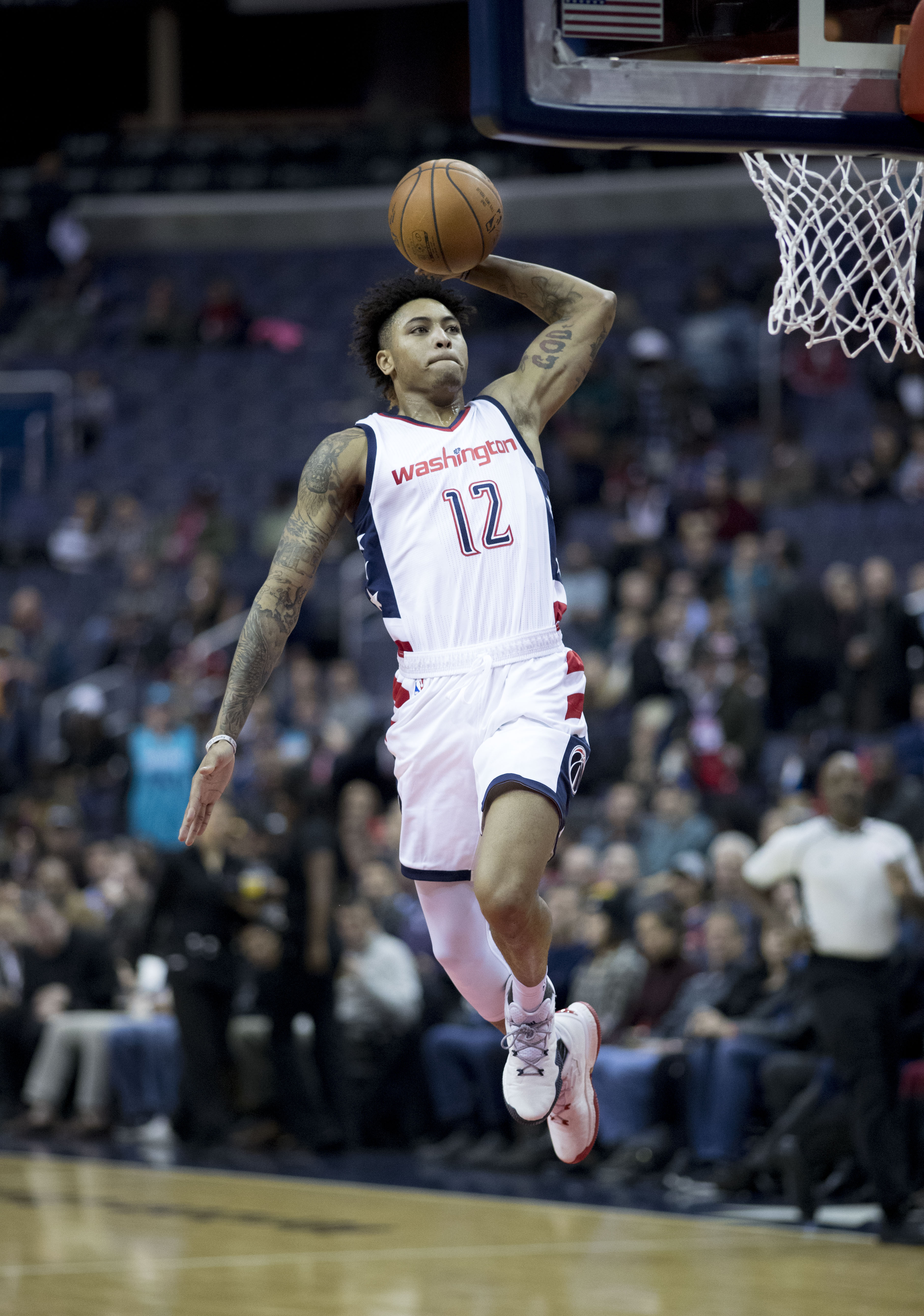 Kelly Oubre Jr. dunks against the Hornets, 12/14/16